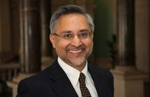 This is in a public domain thus should not be violating copyrights